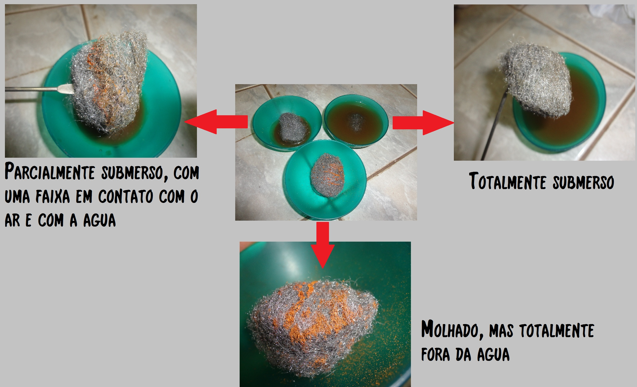 Image used for description of a simple experiment that relates a ship hull with steel sponges